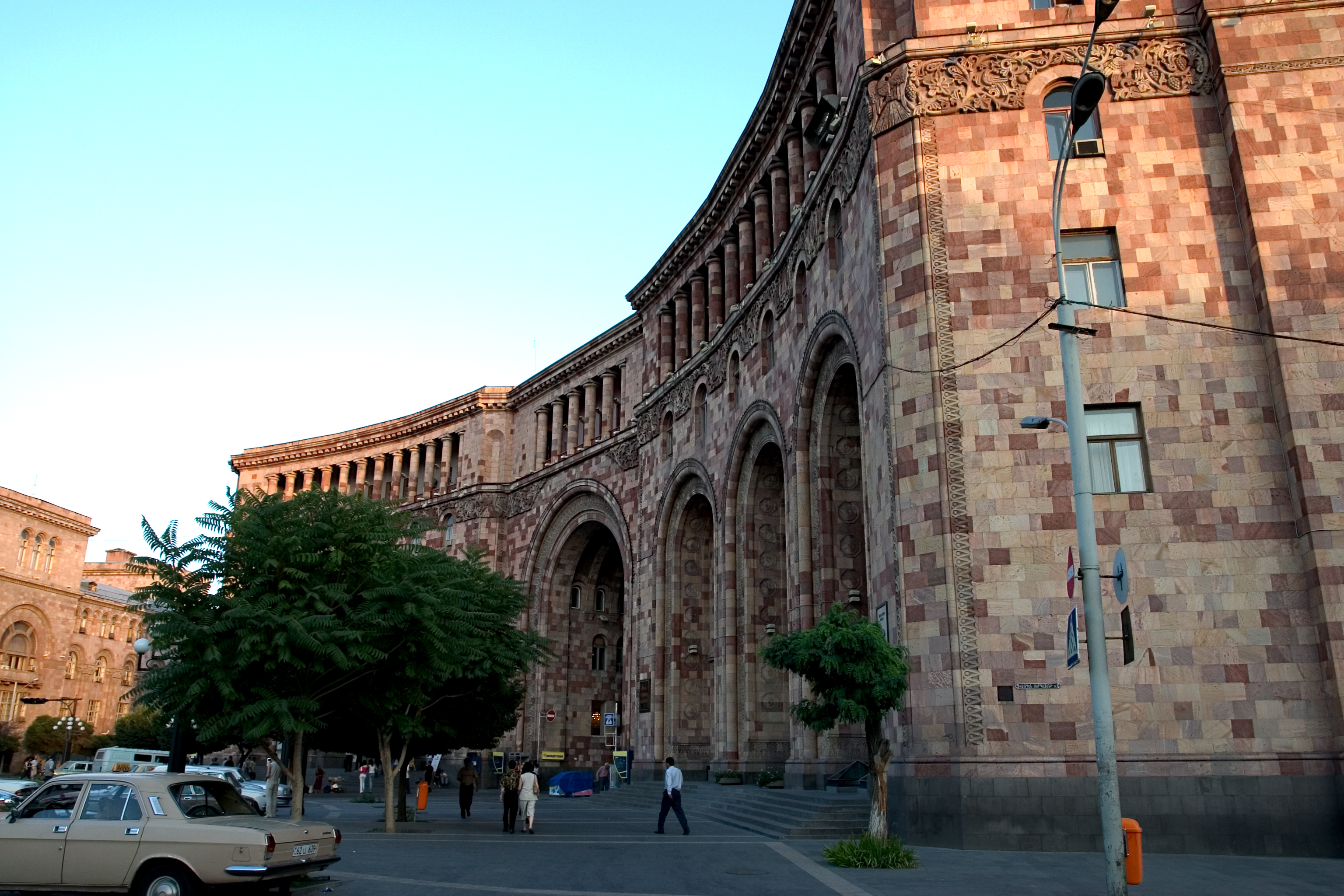 Yerevan, The post office building at the Republic Square (Հանրապետության Հրապարակ)